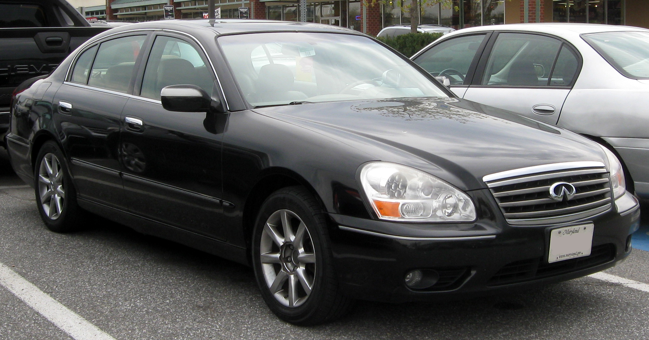 2005-2006 Infiniti Q45 photographed in Clinton, Maryland, USA.